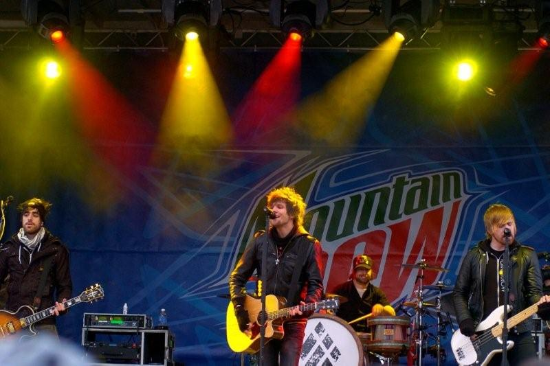 Boys Like Girls performing at Mount Snow in 2009